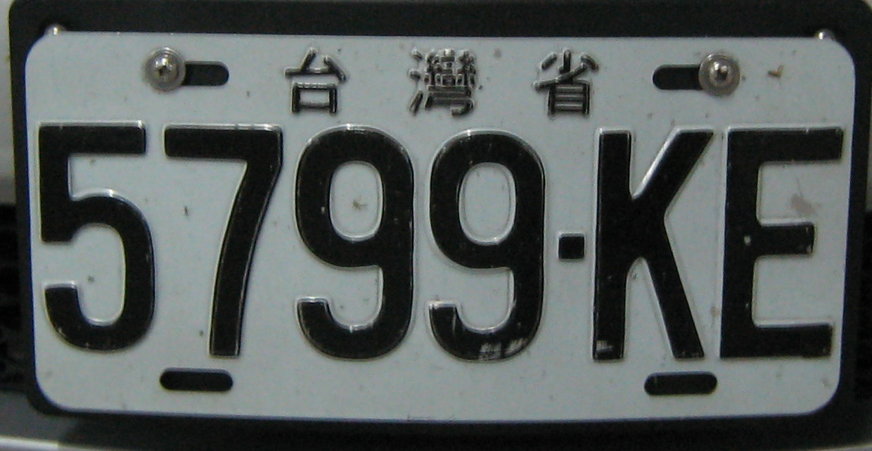 Taiwan Province license plate on a Mercedes-Benz.